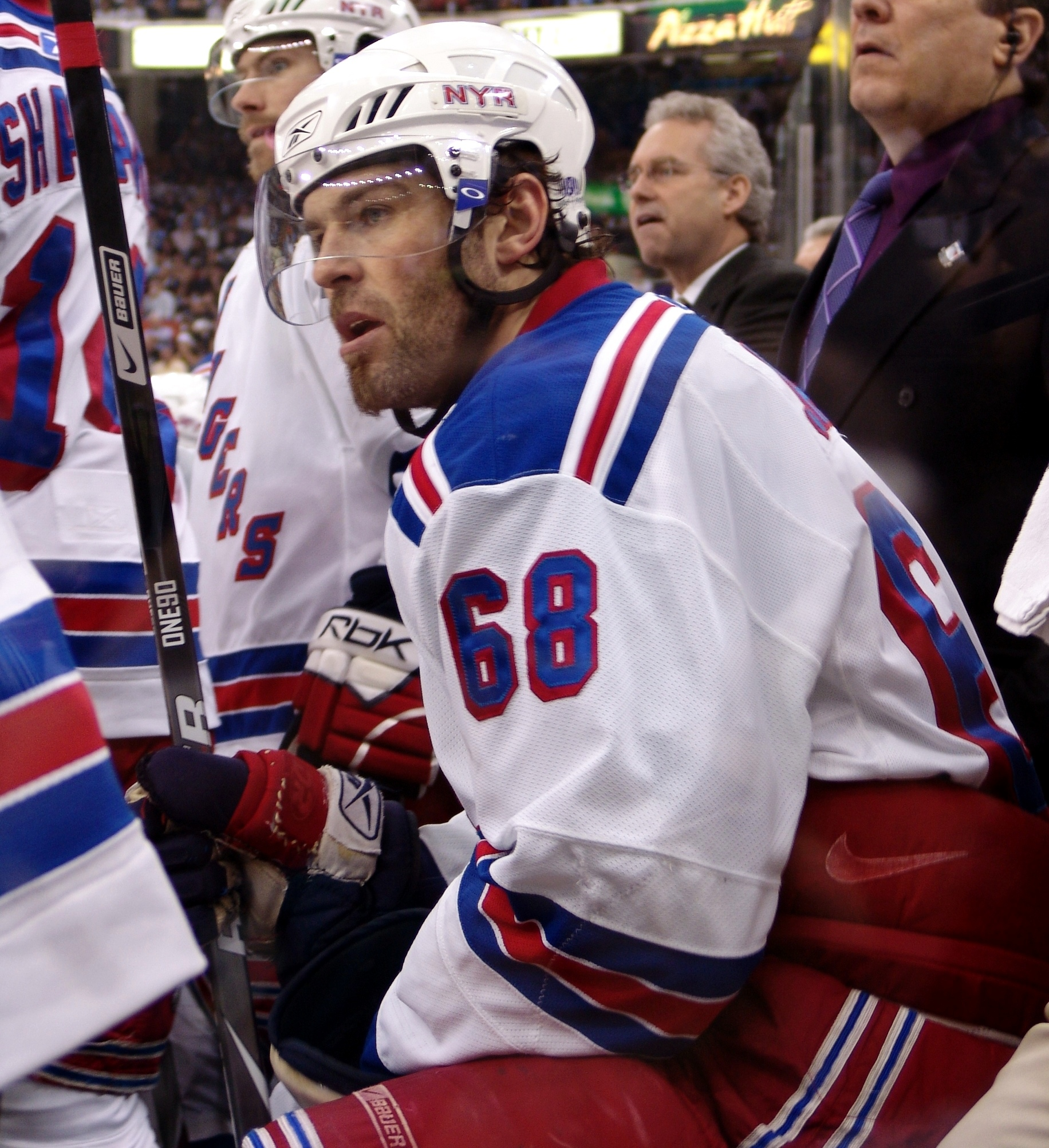 Jaromir Jagr waits on the bench for his next shift during a May 4, 2008 playoff game between the New York Rangers and Pittsburgh Penguins at Mellon Arena in Pittsburgh, PA. The 2-1 overtime loss eliminated the Rangers in five games. It would be Jagr's final game at The Igloo.